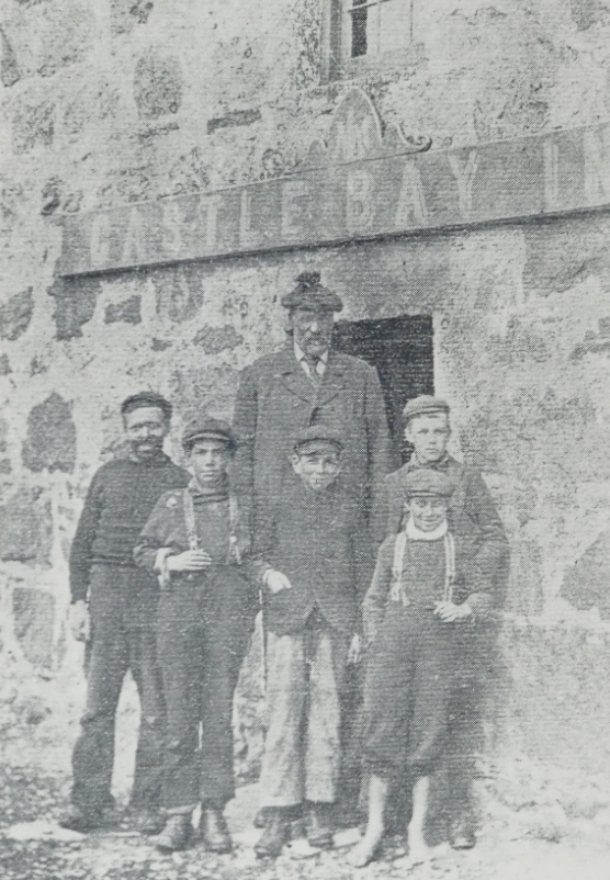 Pàdraig Mòr, the "Barra Giant" outside the Castlebay Inn, Castlebay, Barra, Outer Hebrides